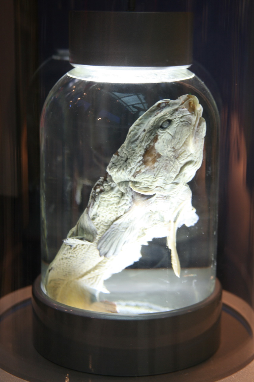 Highfin Tadpole Fish (Guentherus altivela) in the Sant Ocean Hall at the Smithsonian’s National Museum of Natural History.